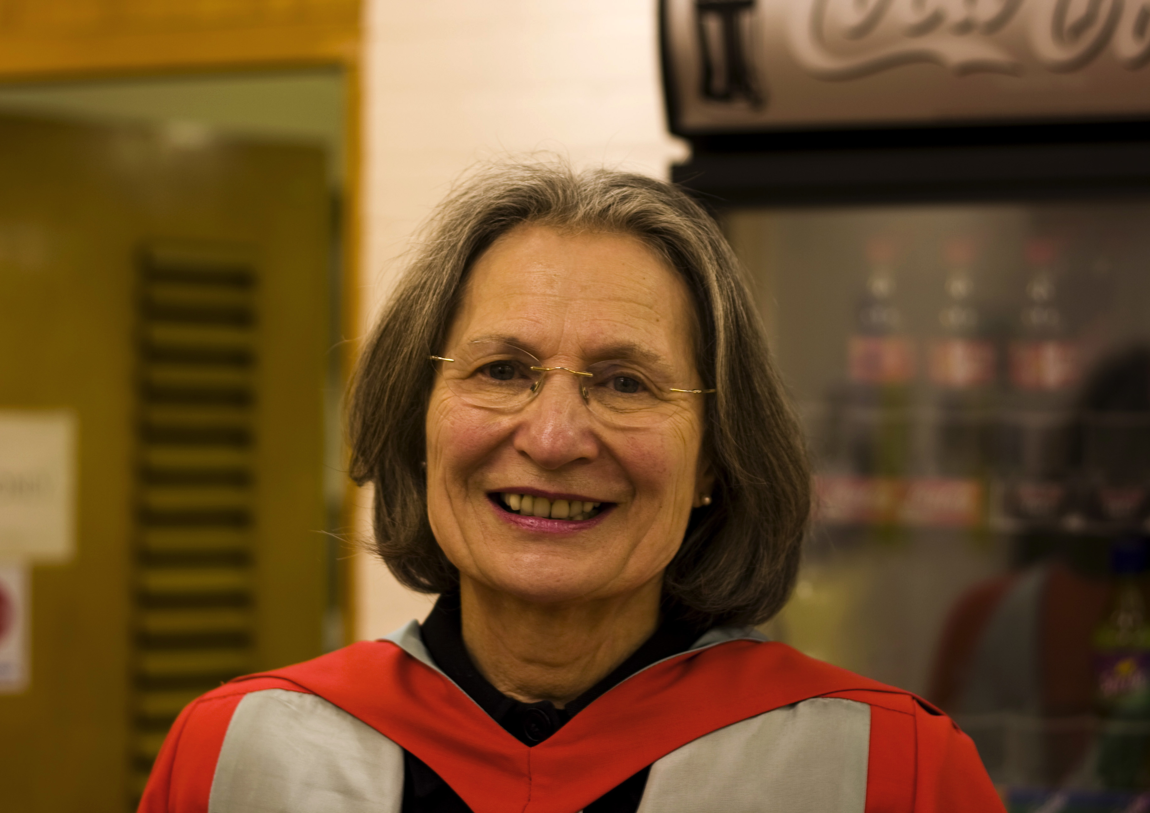 Dame Mary Tanner , a well-known biblical scholar, awarded an honorary Doctor of Divinity degree by the University of Hull.